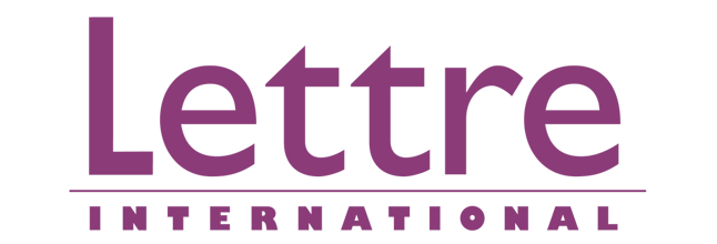 Logo/Cover Title of German magazine Lettre International.